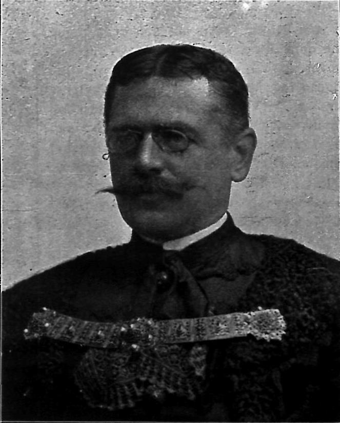 Croatian ban (viceroy) Aleksandar Rakodczay